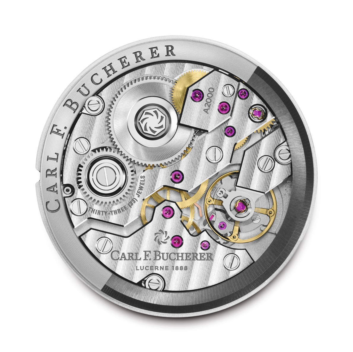 Carl F. Bucherer manufactured watch movement.